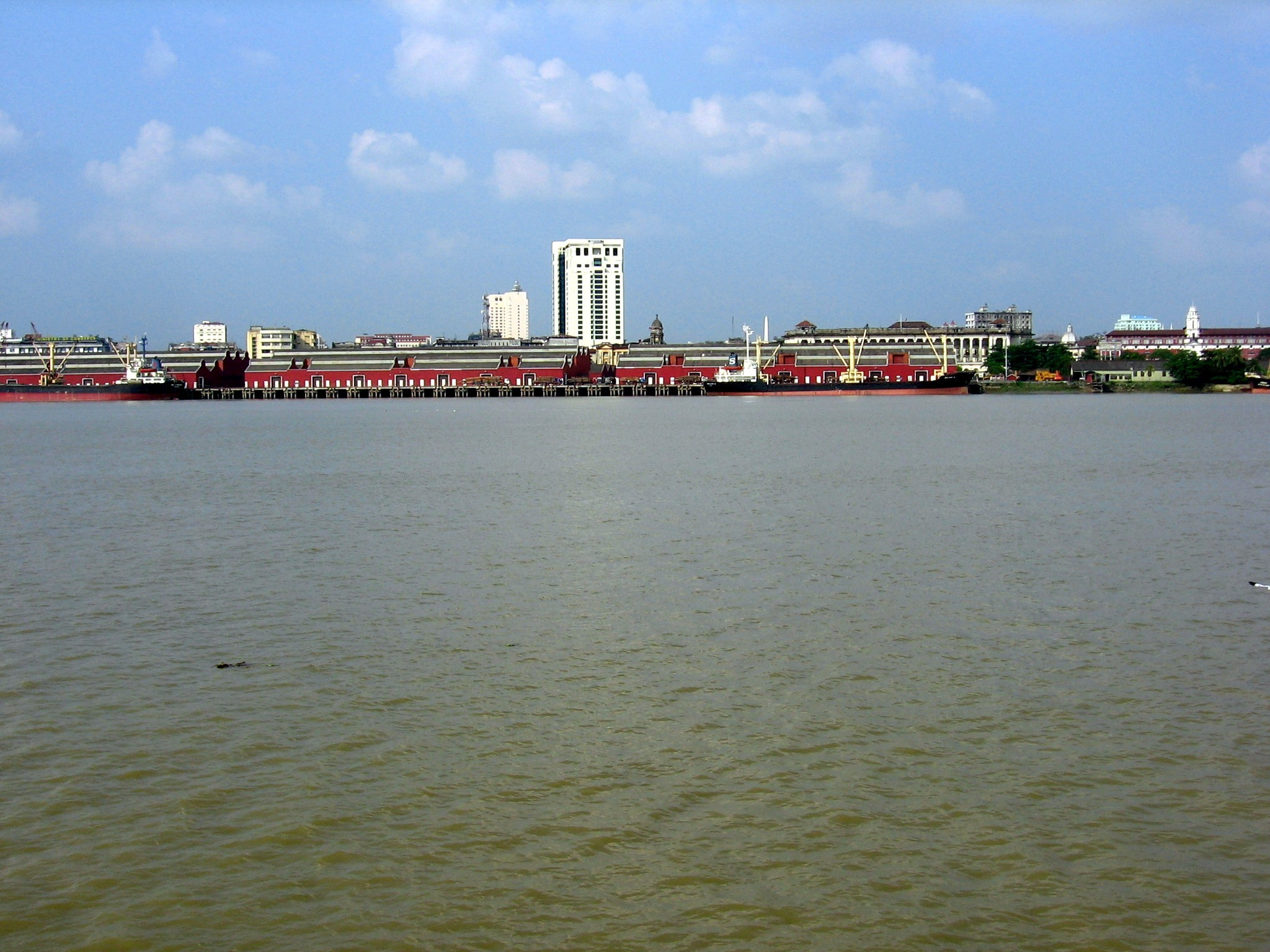 The Yangon River (also known as Rangoon River or Hlaing River) is an estuary that runs from Yangon, Myanmar to the Andaman Sea.